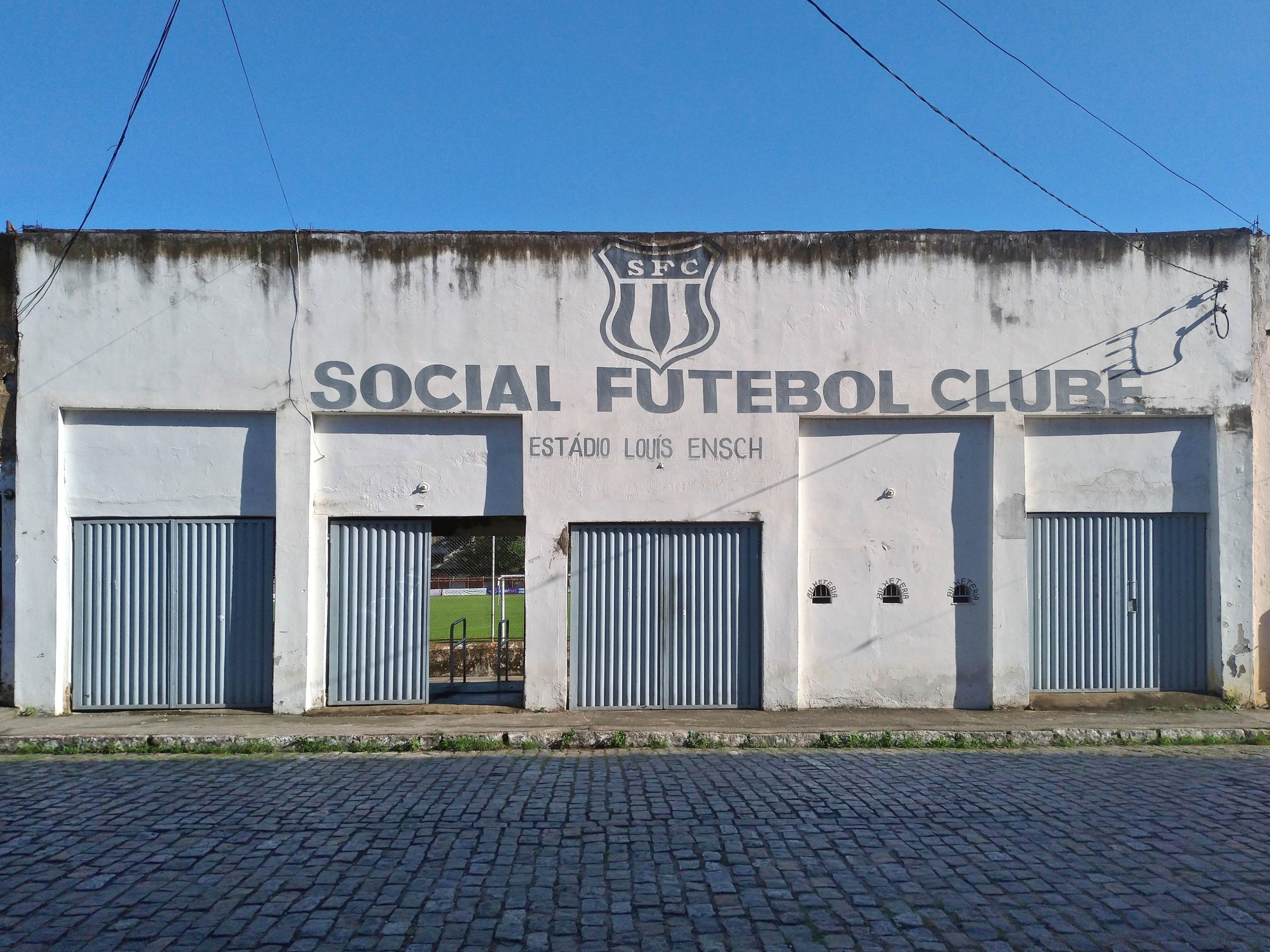 Main entrance of the Louis Ensch stadium, in Coronel Fabriciano, Minas Gerais, Brazil.